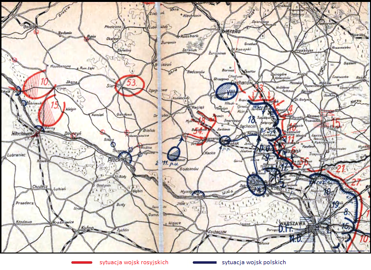 Władysław Sikorski, On the Vistula and Wkra. A Study from the Polish-Russian War of 1920. Sketch No. 5 (fragment): The situation on the Vistula from August 16, 1920 around 12 o'clock.